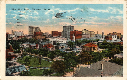 The Sky Line, Houston, Texas